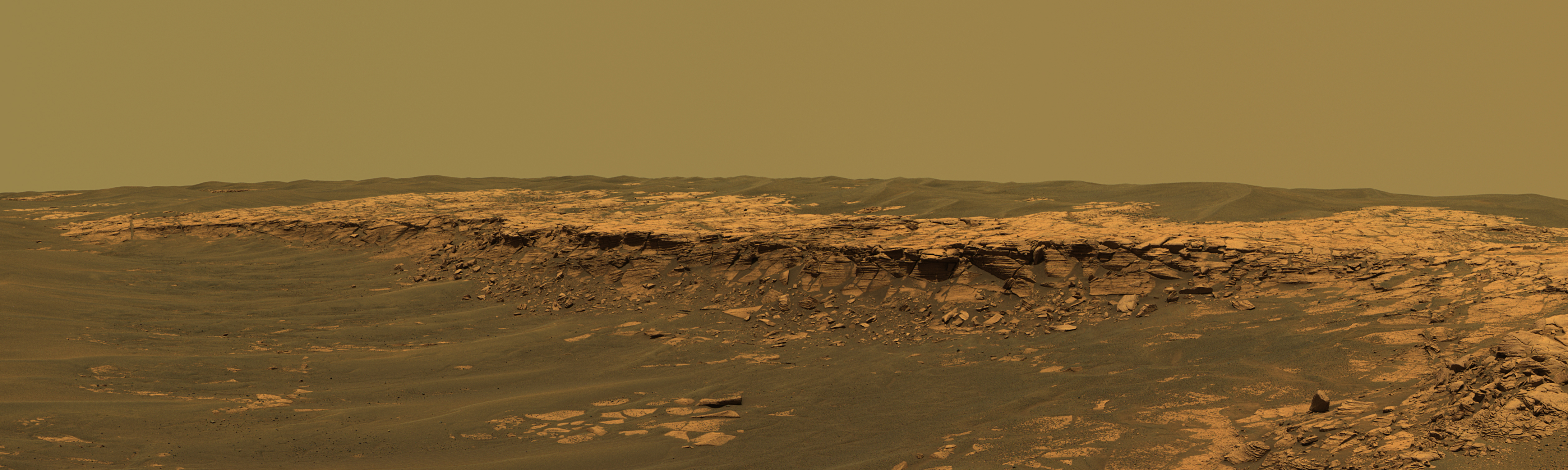 The panoramic camera aboard NASA's Mars Exploration Rover Opportunity acquired this panorama of the "Payson" outcrop on the western edge of "Erebus" Crater during Opportunity's sol 744 (Feb. 26, 2006). From this vicinity at the northern end of the outcrop, layered rocks are observed in the crater wall, which is about 1 meters (3.3 feet) thick. The view also shows rocks disrupted by the crater-forming impact event and subjected to erosion over time. To the left of the outcrop, a flat, thin layer of spherule-rich soils overlies more outcrop materials. The rover is currently traveling down this "road" and observing the approximately 25-meter (82-foot) length of the outcrop prior to departing Erebus crater. The panorama camera took 28 separate exposures of this scene, using four different filters. The resulting panorama covers about 90 degrees of terrain around the rover. This approximately true-color rendering was made using the camera's 753-nanometer, 535-nanometer and 423-nanometer filters. Image-to-image seams have been eliminated from the sky portion of the mosaic to better simulate the vista a person standing on Mars would see.